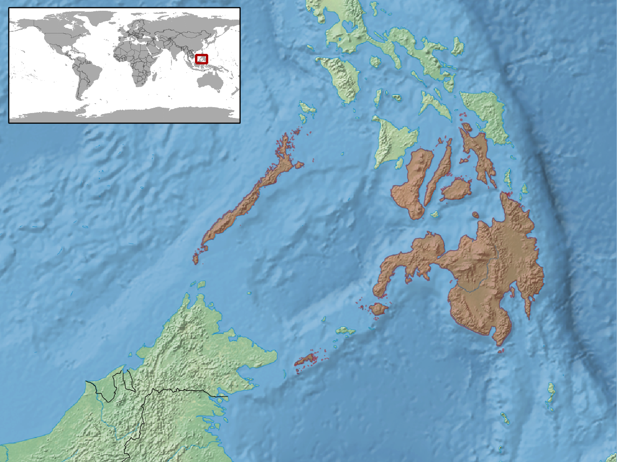 geographic distribution of Cyrtodactylus annulatus (Native: Philippines)